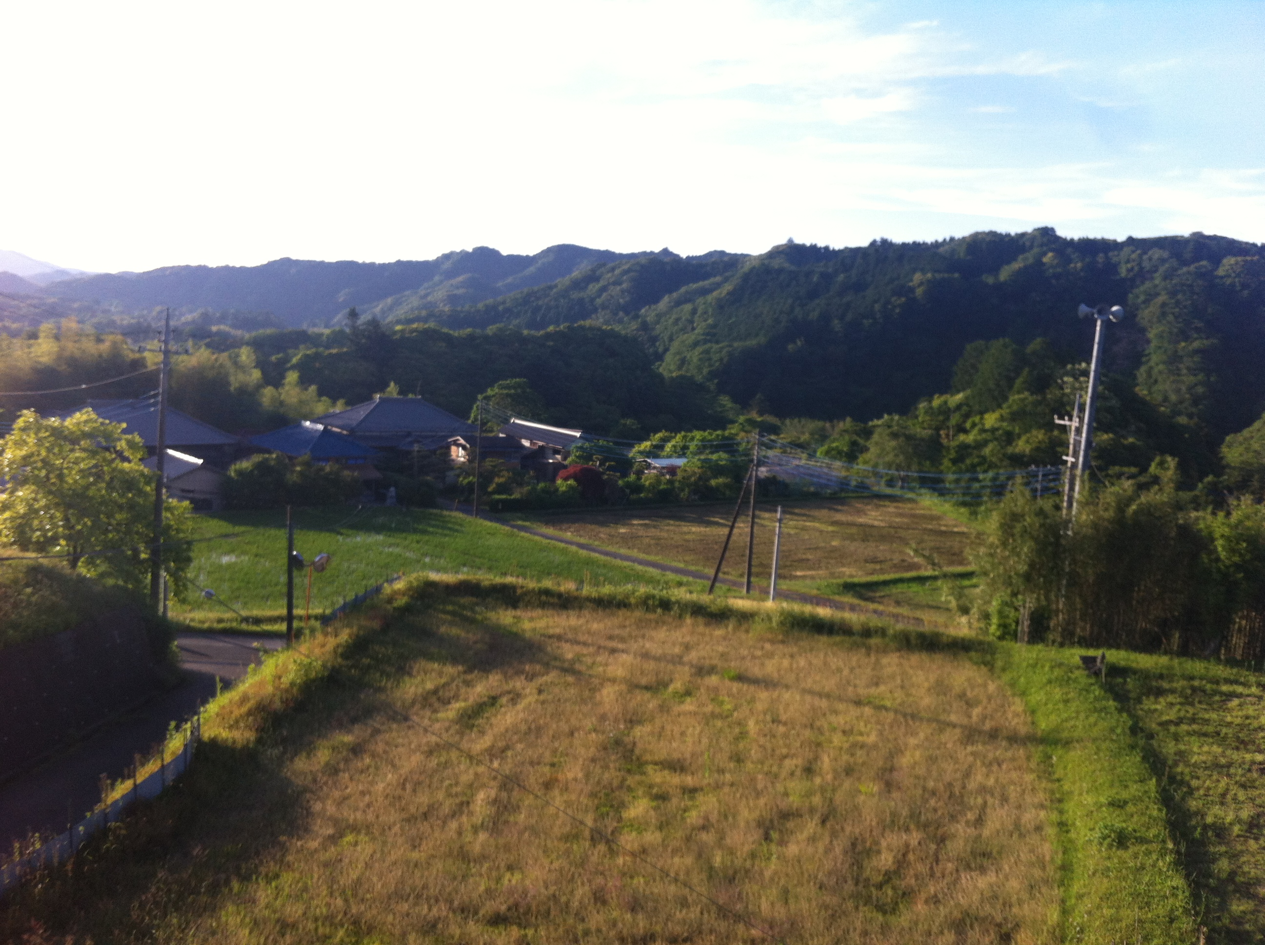 Rice (tumbo) paddy in Okugame Japan